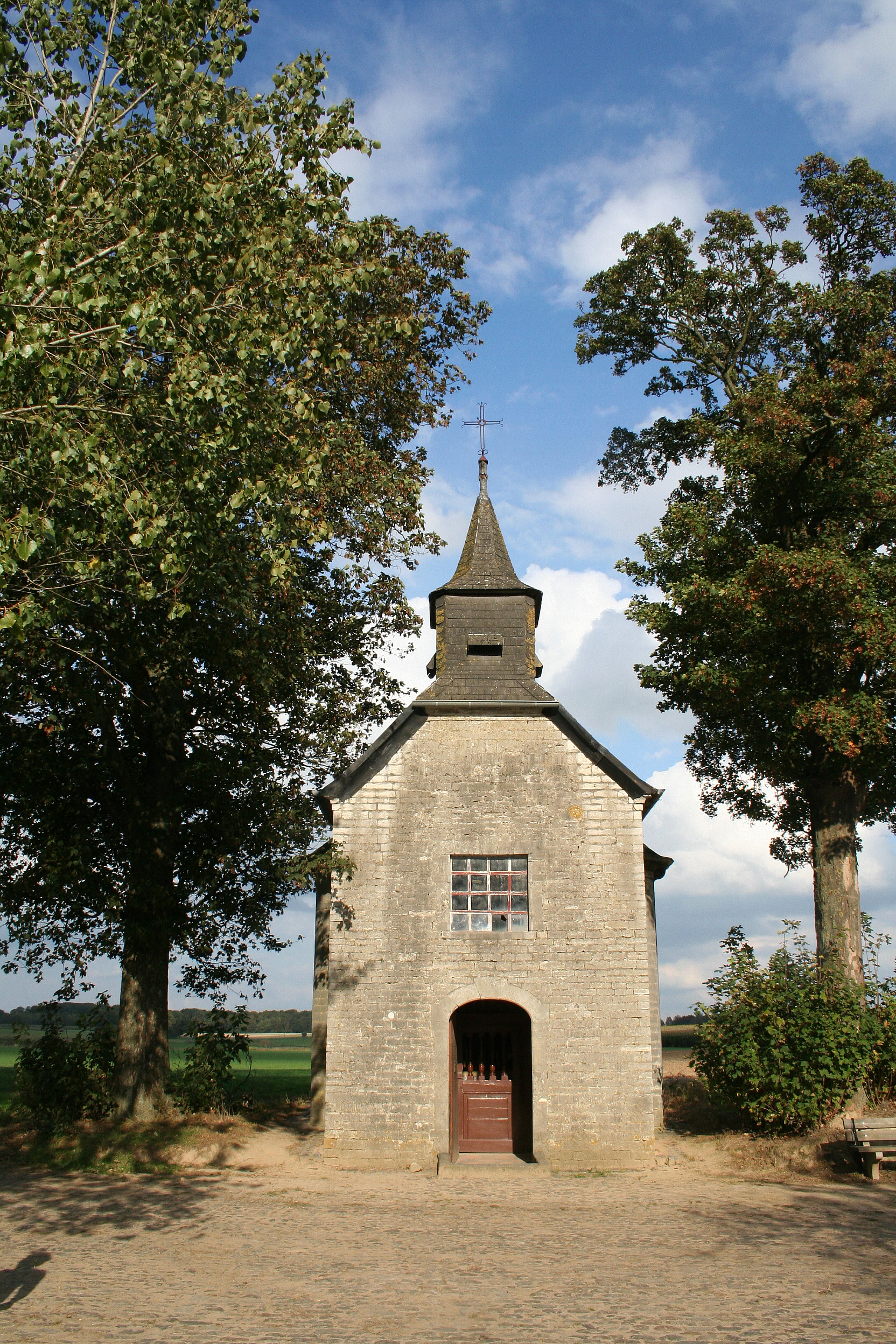 Tourinnes-la-Grosse (Belgium), the Our Lady of the « Rond-Chêne » chapel (1768).